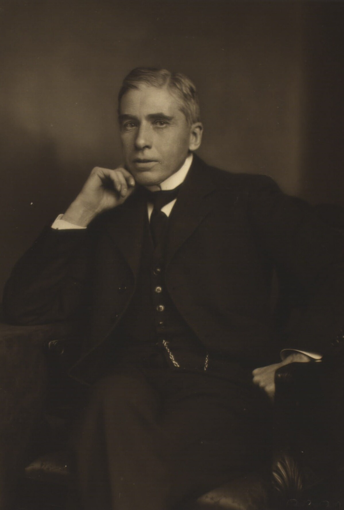 Danish physician and Minister of Public Health Victor Rubow (1871-1929)